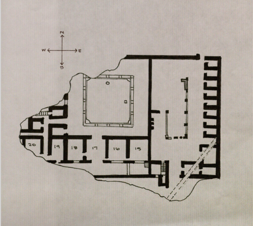 Floor plan of the Villa at Boscotrecase. The southern cubicula, where the surviving frescos were originally located, are labeled.